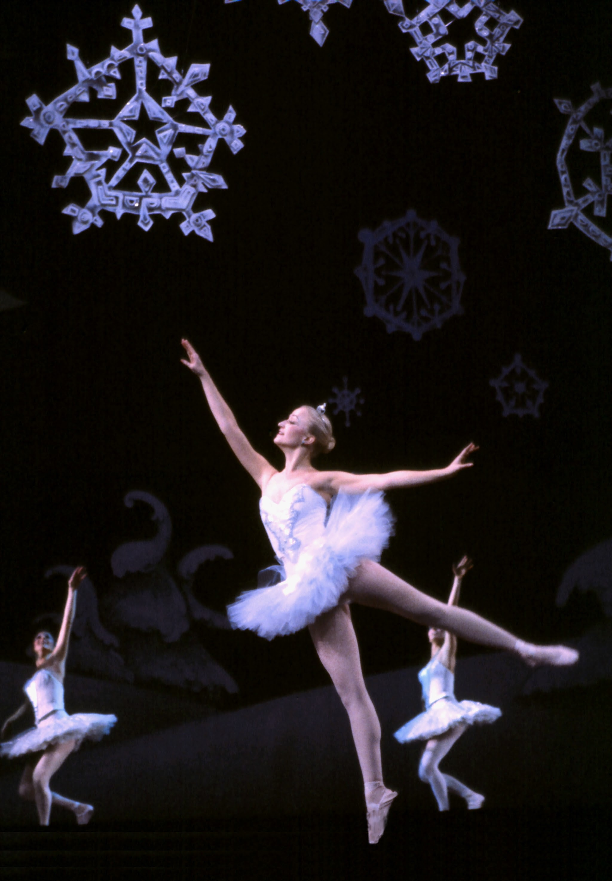 A performance of The Nutcracker ballet, 1981